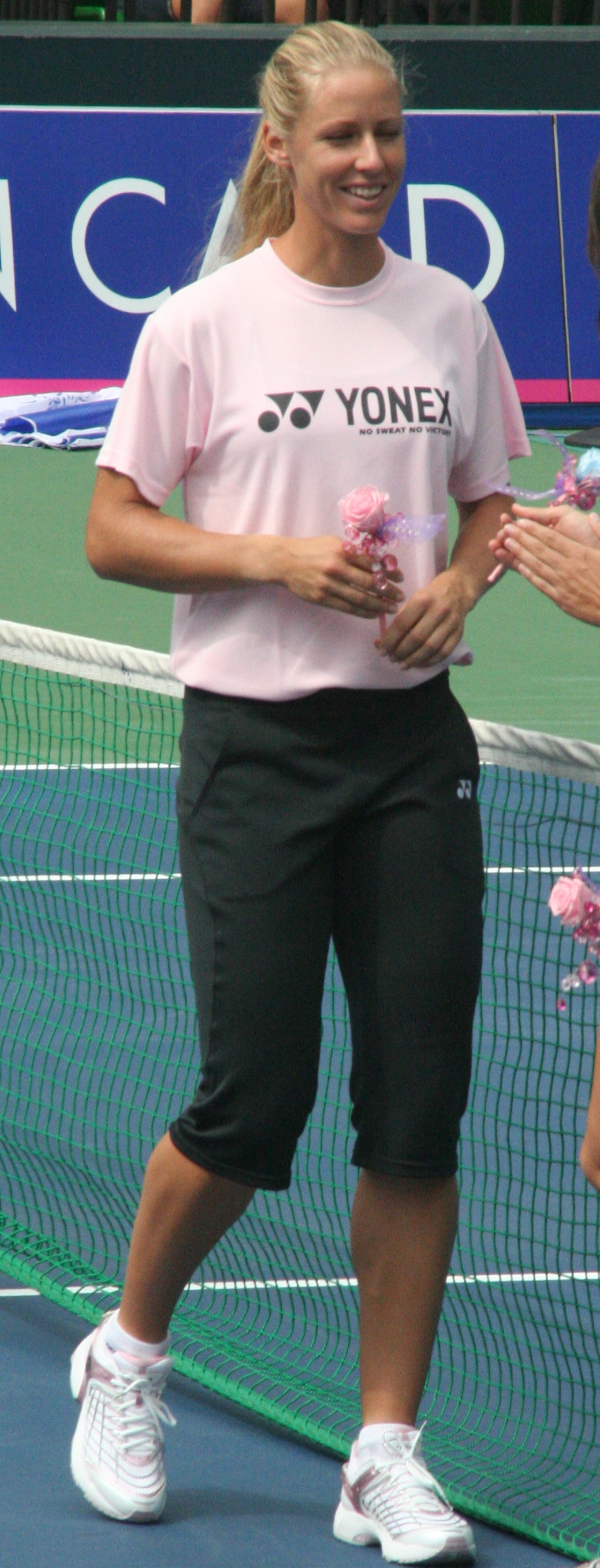 Russian Tennis player Elena Dementieva during the retirement ceremony for her colleague Ai Sugiyama on the opening day of the Toray Pan Pacific Open 2009 in Tokyo.